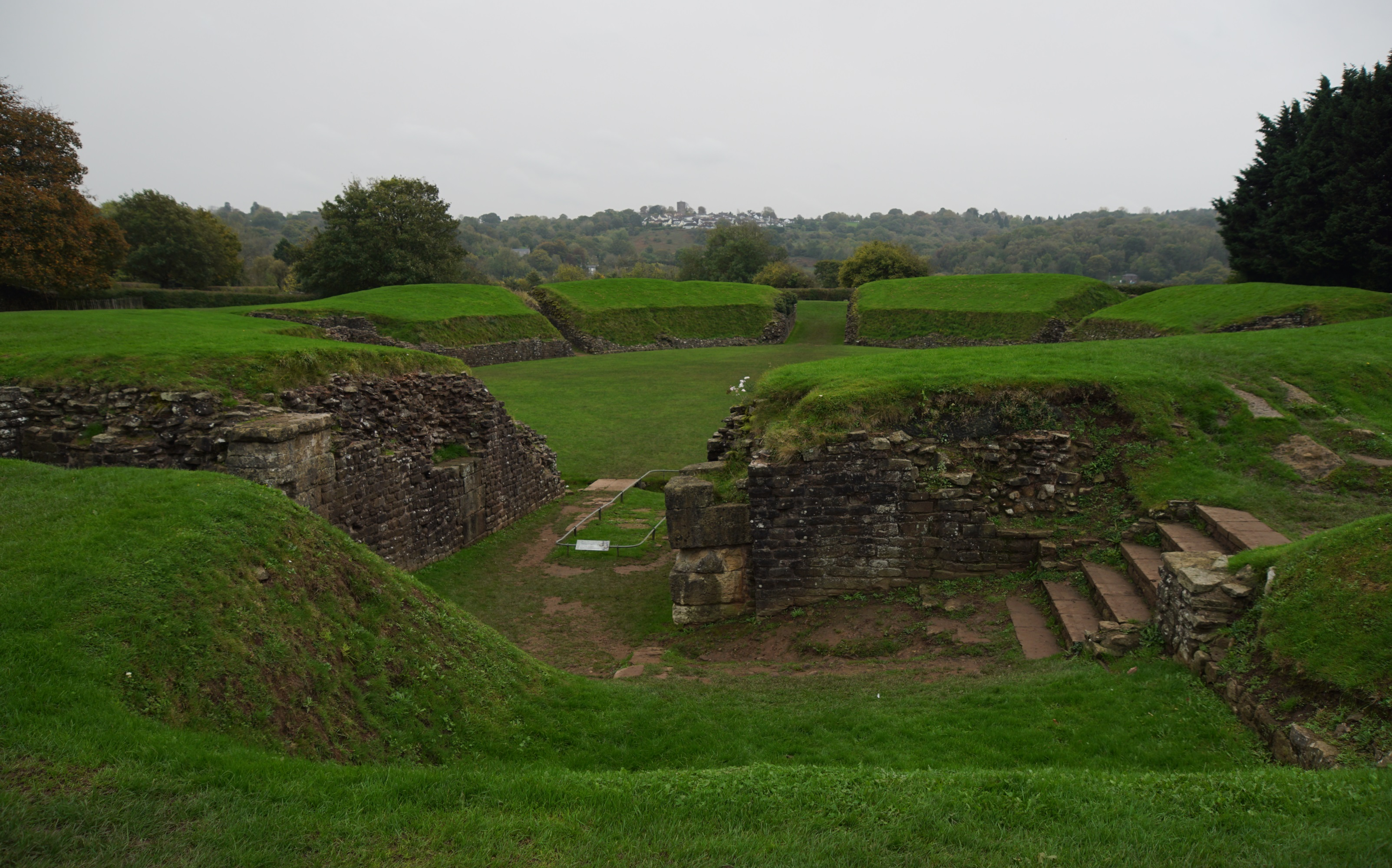 Caerleon Amphitheatre, Caerleon, Wales, United Kingdom. Northern entrance.